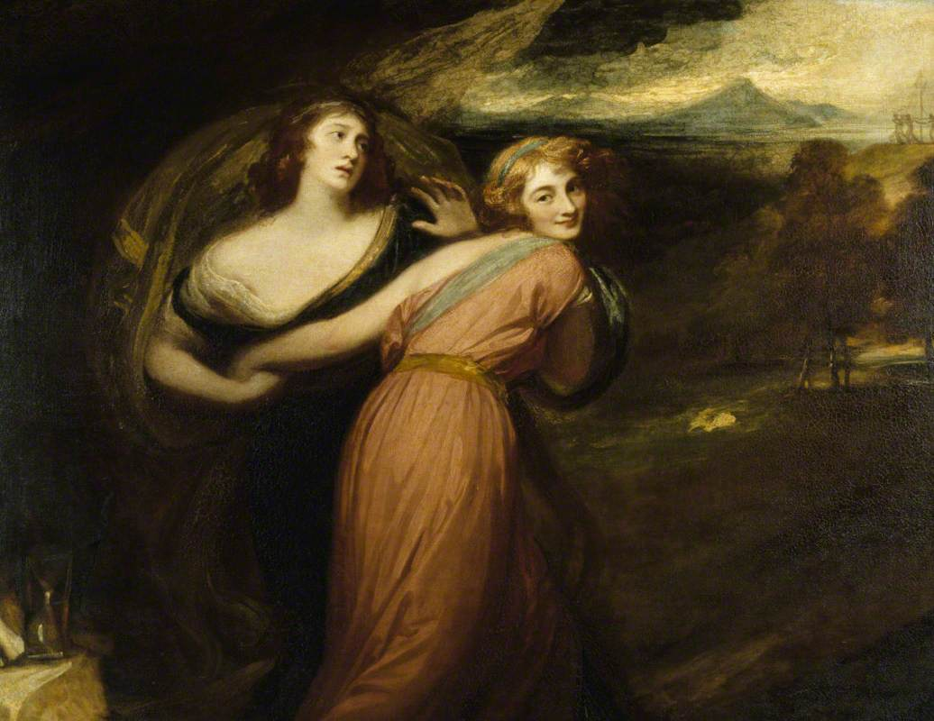 Tryphosa Jane Wallis or Tryphosa Jane Campbell (1774 – 29 December, 1848) was a British Actress painted here by George Romney in about 1789 and John Graham in the 1790s